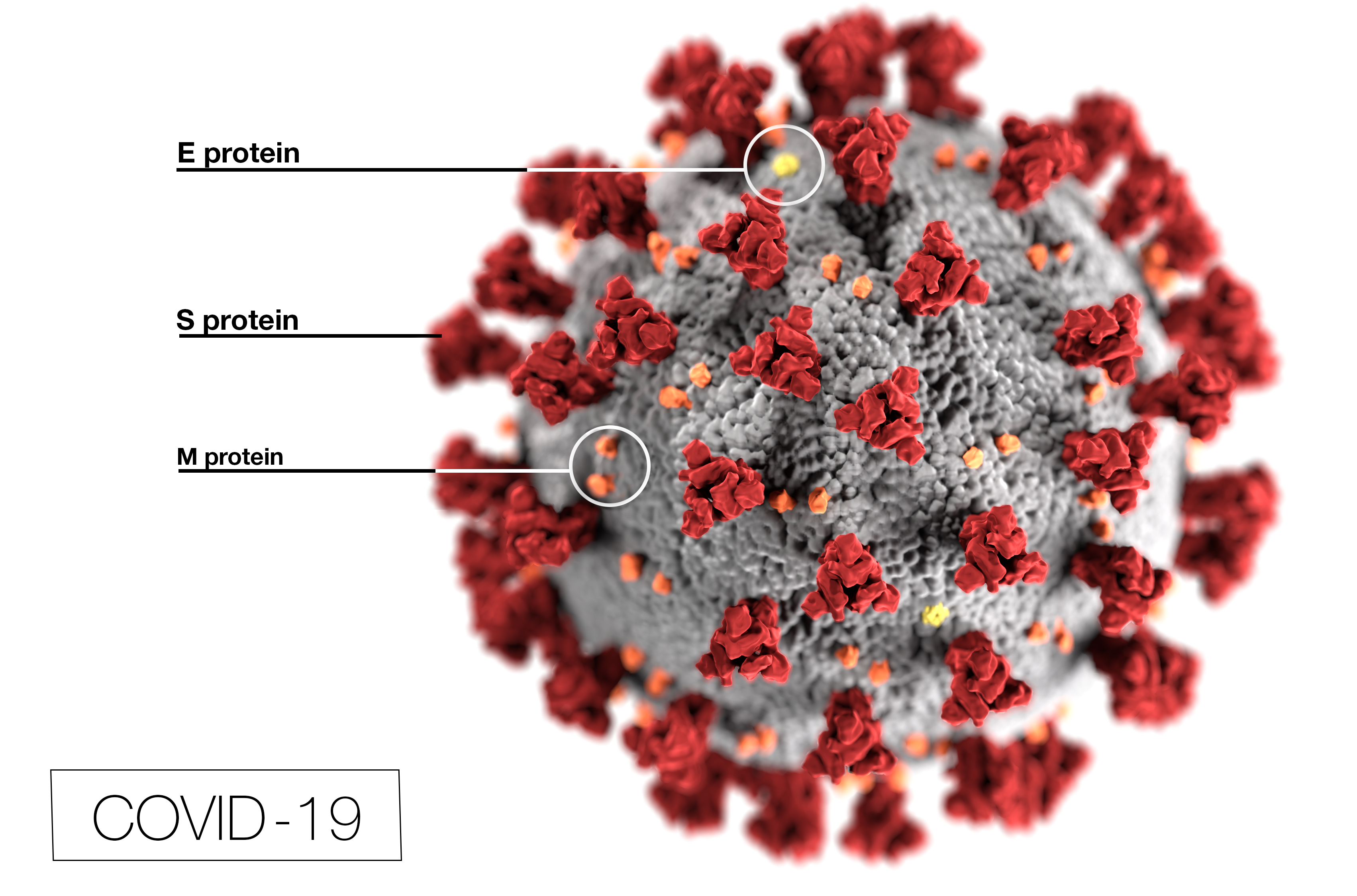 This illustration, created at the Centers for Disease Control and Prevention (CDC), reveals ultrastructural morphology exhibited by coronaviruses. Note the spikes that adorn the outer surface of the virus, which impart the look of a corona surrounding the virion, when viewed electron microscopically. In this view, the protein particles E, S, and M, also located on the outer surface of the particle, have all been labeled as well. A novel coronavirus, named Severe Acute Respiratory Syndrome coronavirus 2 (SARS-CoV-2), was identified as the cause of an outbreak of respiratory illness first detected in Wuhan, China in 2019. The illness caused by this virus has been named coronavirus disease 2019 (COVID-19).